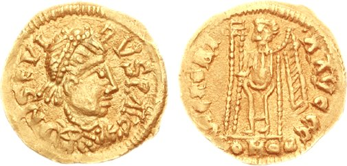 Visigoths, Gaul, In the name of Libius Severus (Severus III). Uncertain king. AD 417-507. AV Tremissis (1.40 g, 6h). Uncertain mint in Gaul. Struck circa 461-470. D N SEVI RVS P AVC, pearl-diademed, draped, and cuirassed bust right; “flame” on shoulder VICTORI-Λ ΛVCCC, Victory standing left, holding long cross (without crossbar) in right hand; COMOB. Cf. Reinhart, Münzen 82; MEC 1, -; cf. RIC X 3757; Depeyrot 5 (Toulouse mint); cf. Hunter, Byzantine 10. Good VF, slight die rust.